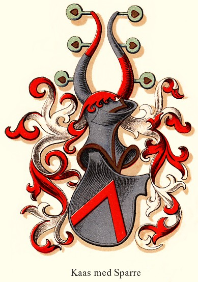 Coat of arms of the Kaas of Sparre family